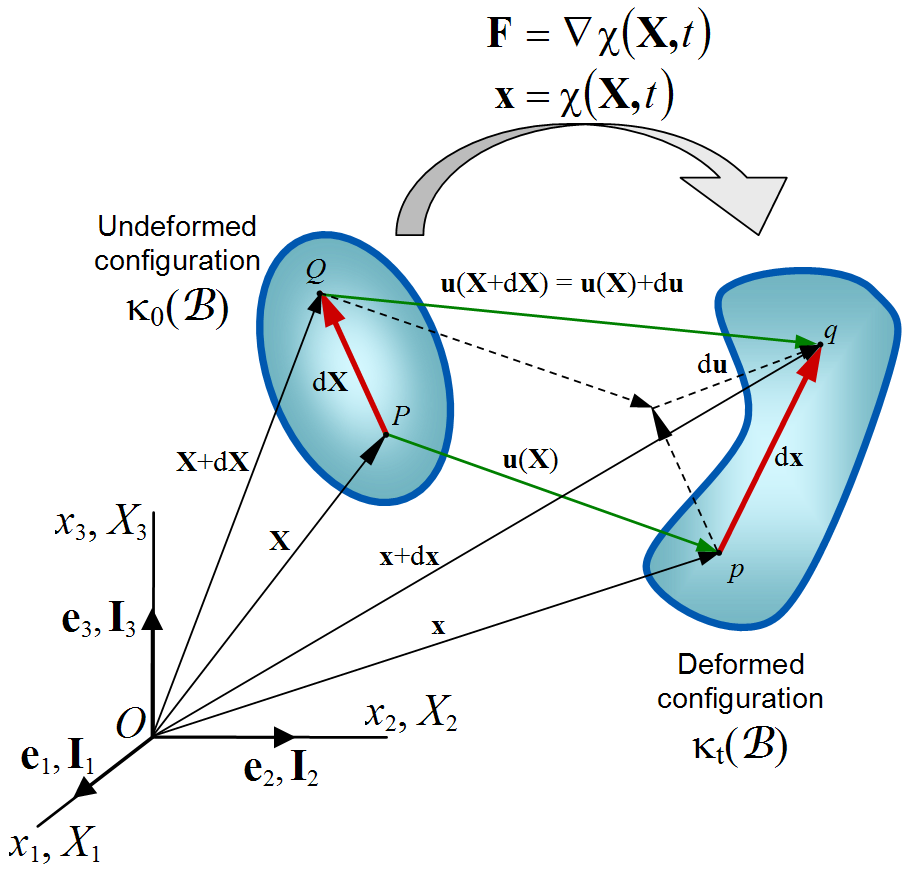 Deformation of a continuum body from an undeformed configuration to a deformed configuration. For articles related to deformation and strain (mechanics), i.e. Continuum Mechanics.